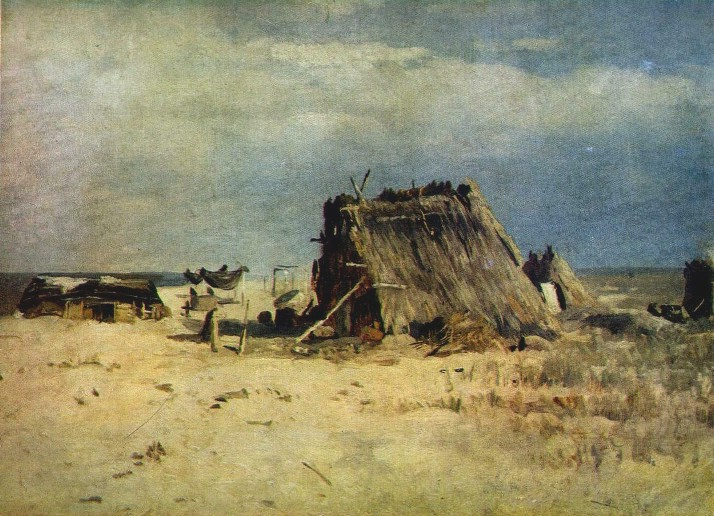 Kureń, a primitive house in Eastern Europe. Беларуская (тарашкевіца): Курэнь, найбольш старажытны тып жылых збудаваньняў у славянаў.